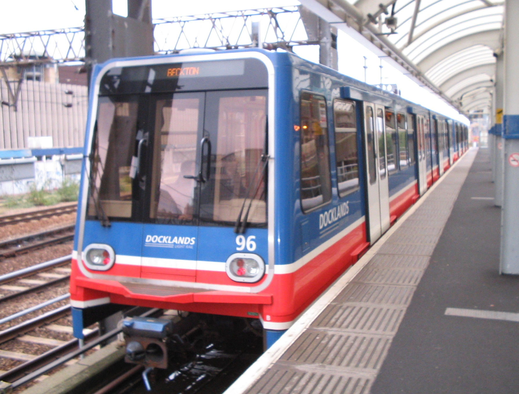 DLR train stands at Tower Gateway with a service for Beckton on 20th October 2004